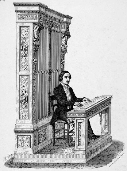 Dutch organist and composer Edouard Silas (1827-1909) by Alexandre Collette (1814-1876).Original caption: "E. Silas, lauréat du concours de 1849, élève de Mr. Benoist, professeur au Conservatoire."